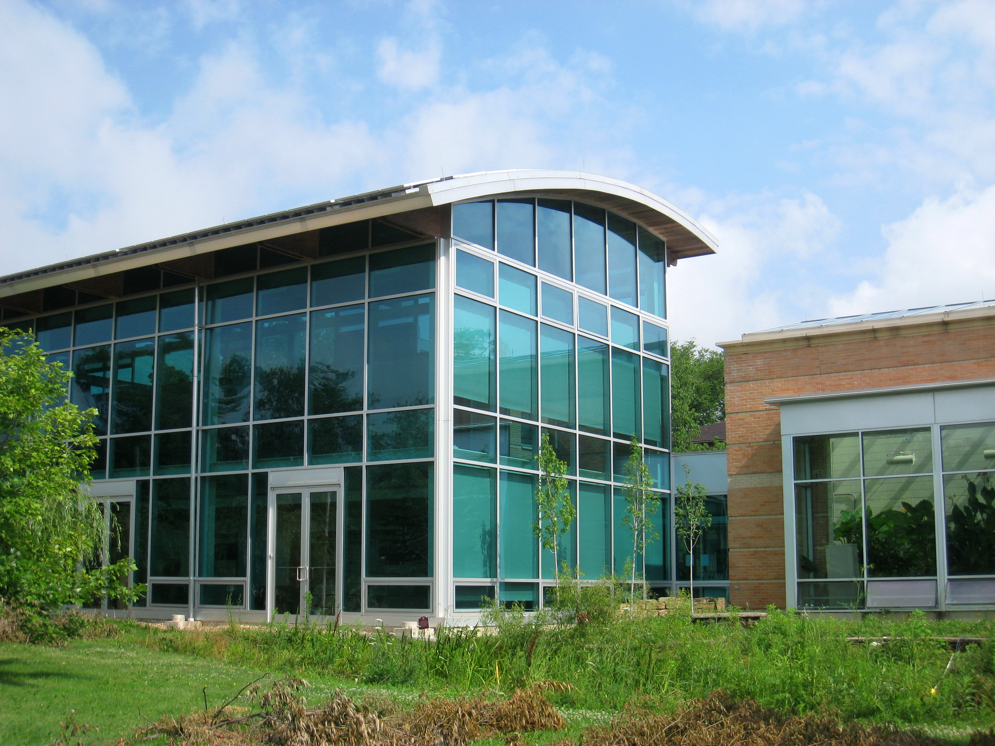 Lewis Center (exterior view), Oberlin College, Oberlin, Ohio, USA. I took this photograph.